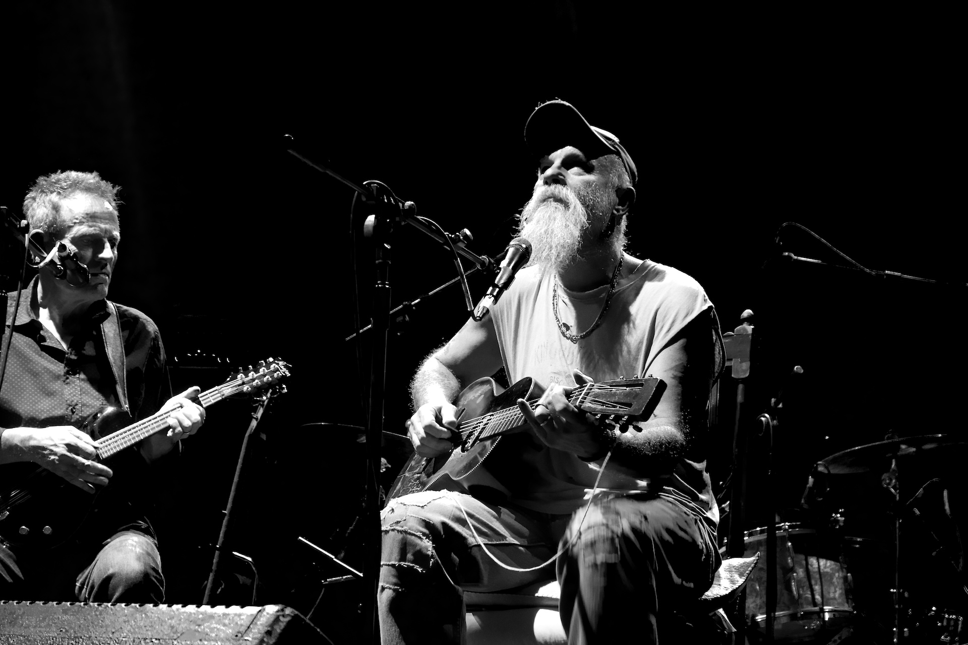 John Paul Jones and Seasick Steve at the Roundhouse